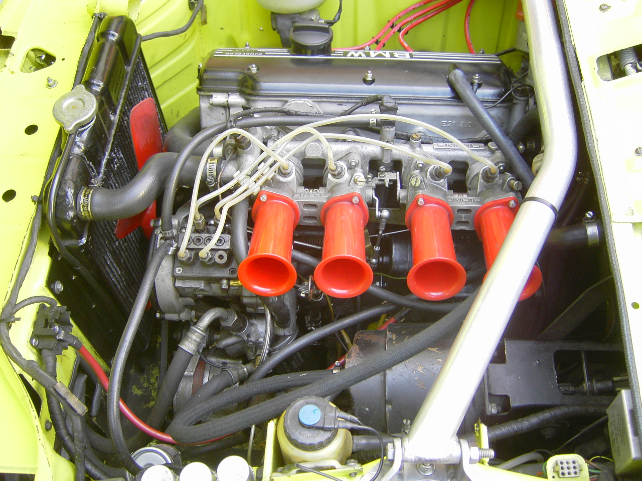 Engine from a BMW 2002 tii Alpina A4 witht Kugelfischer Single-trhothle Injection wihout Airbox